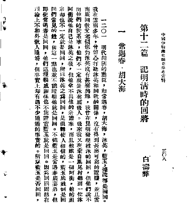 Bai Shouyi introduced the ethnicity issue of several general in the early Ming dynasty